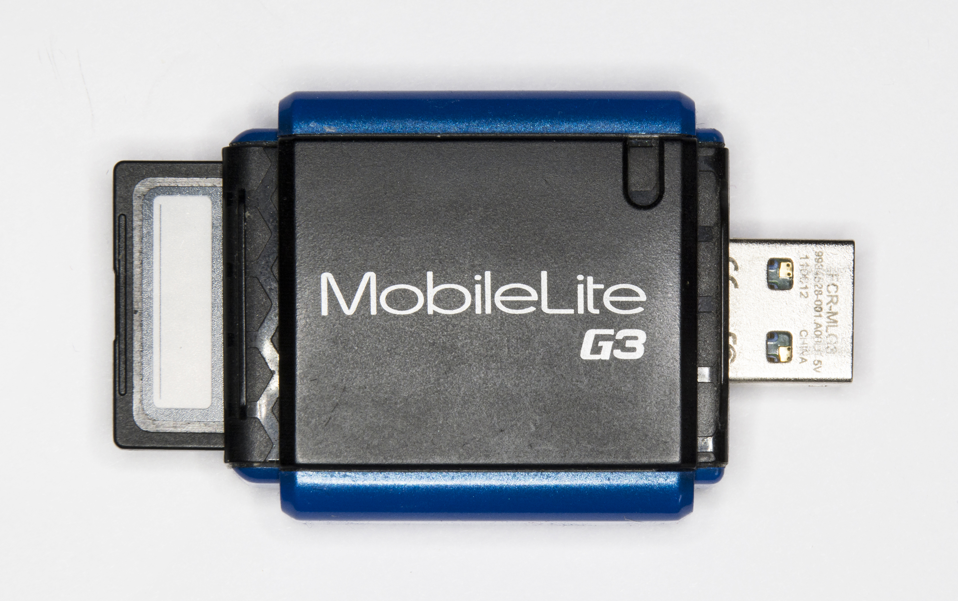 Kingstone MobileLite G3 SD memory card reader